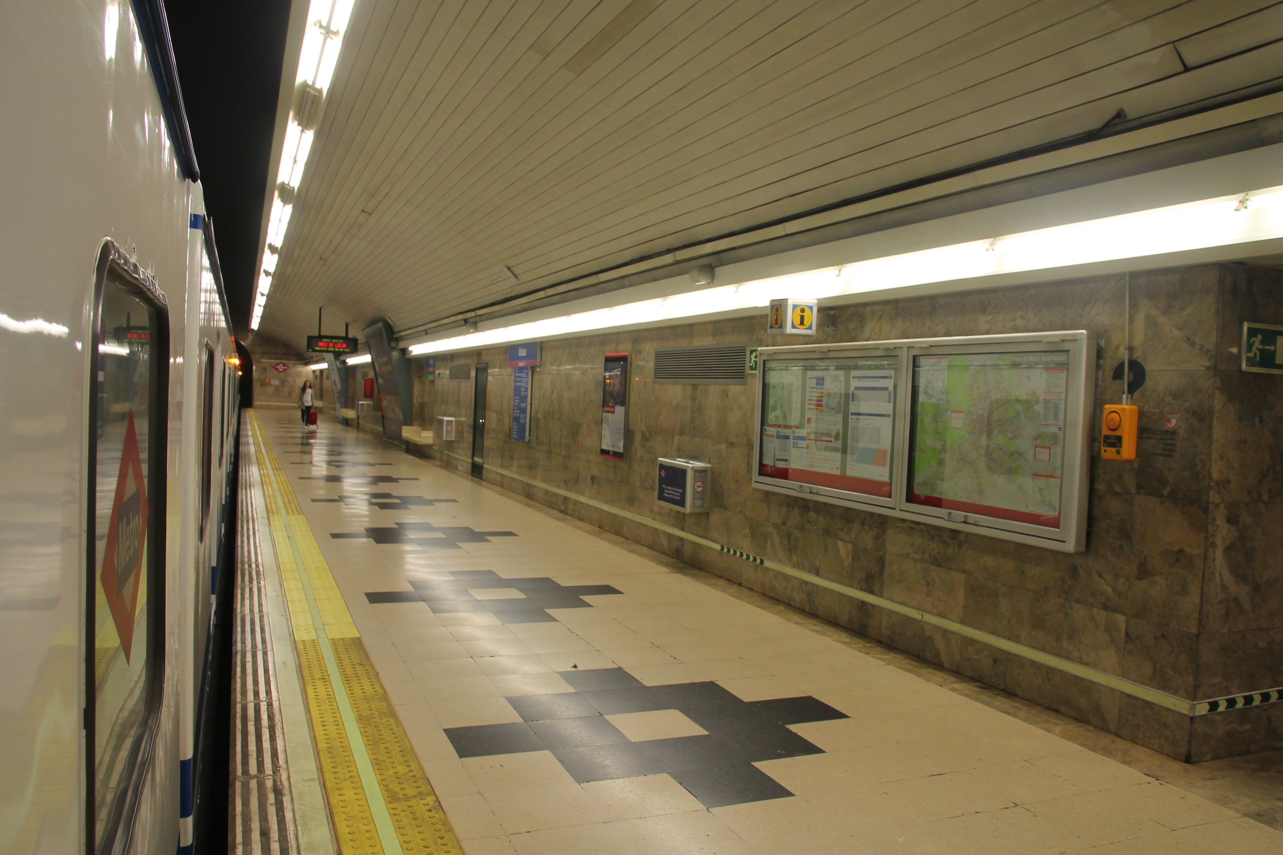 Estación de Ibiza